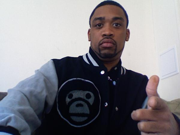 Wiley